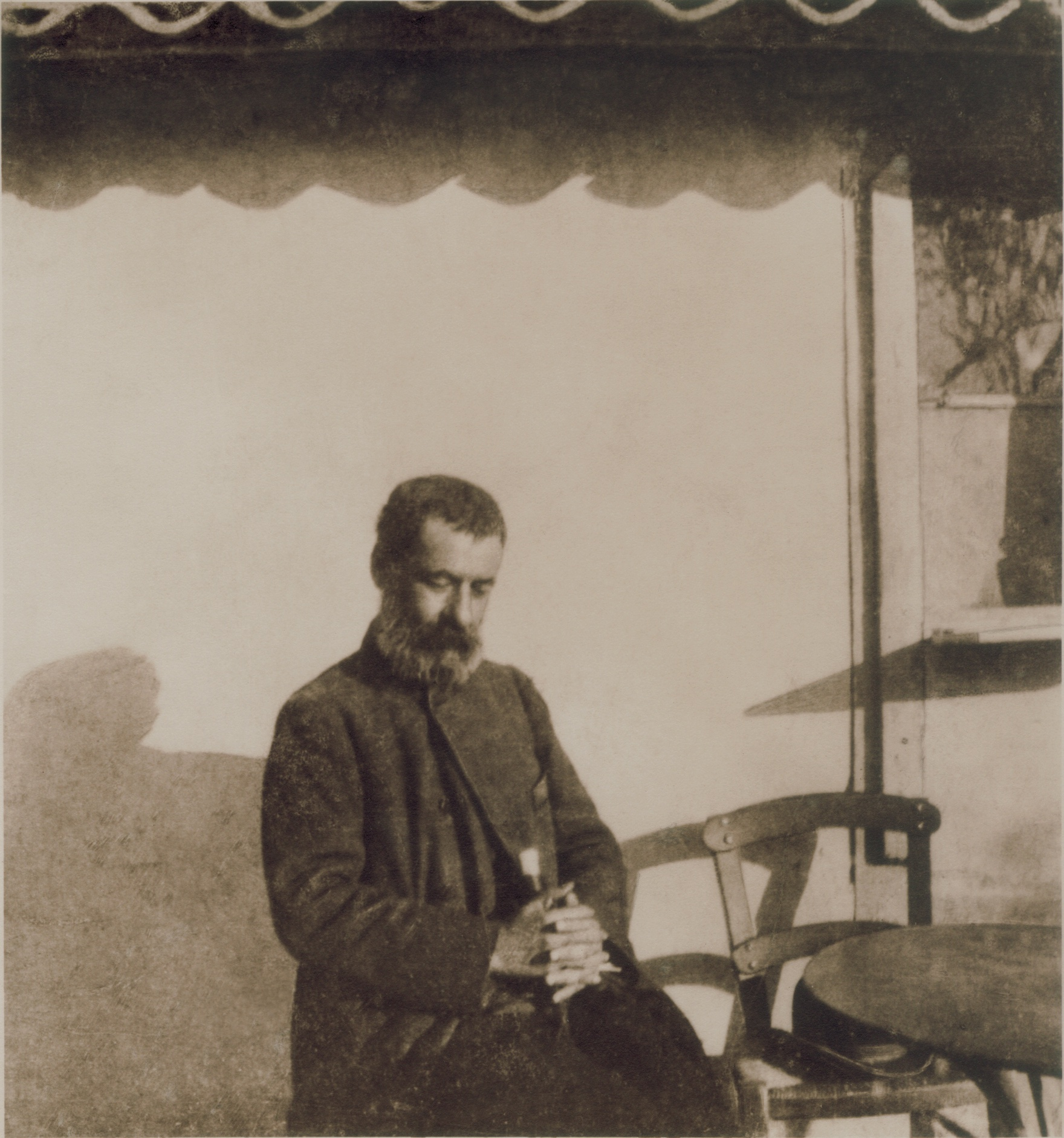 Greek writer Alexandros Papadiamantis photographed in Dexameni (Kolonaki), Athens, Greece.